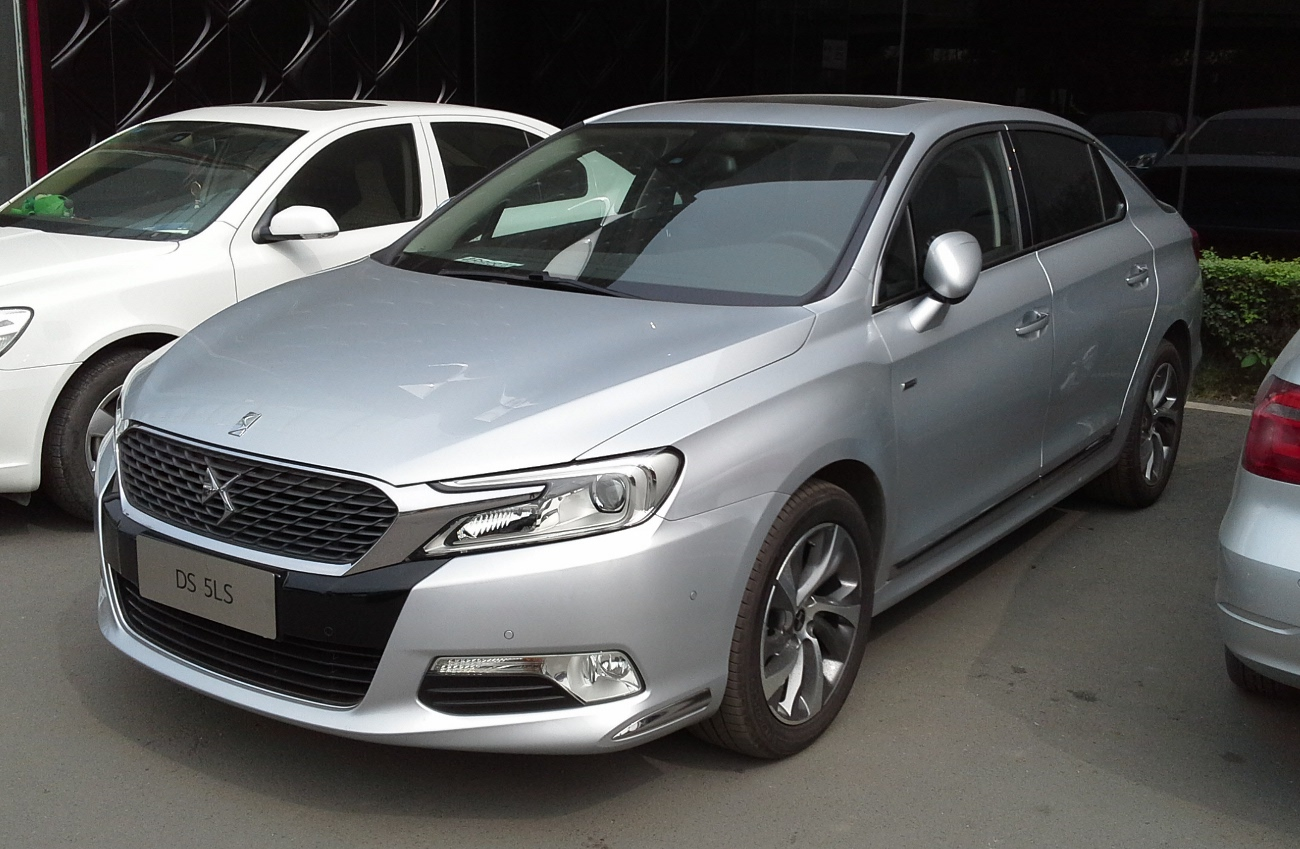 DS 5LS photographed in Chengdu, Sichuan province, China.